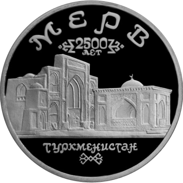 Commemorative coin - 190th anniversary of the birth of Pavel Stepanovich Nakhimov